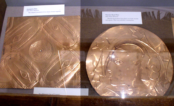 Replica repousse copper plates from Spiro.